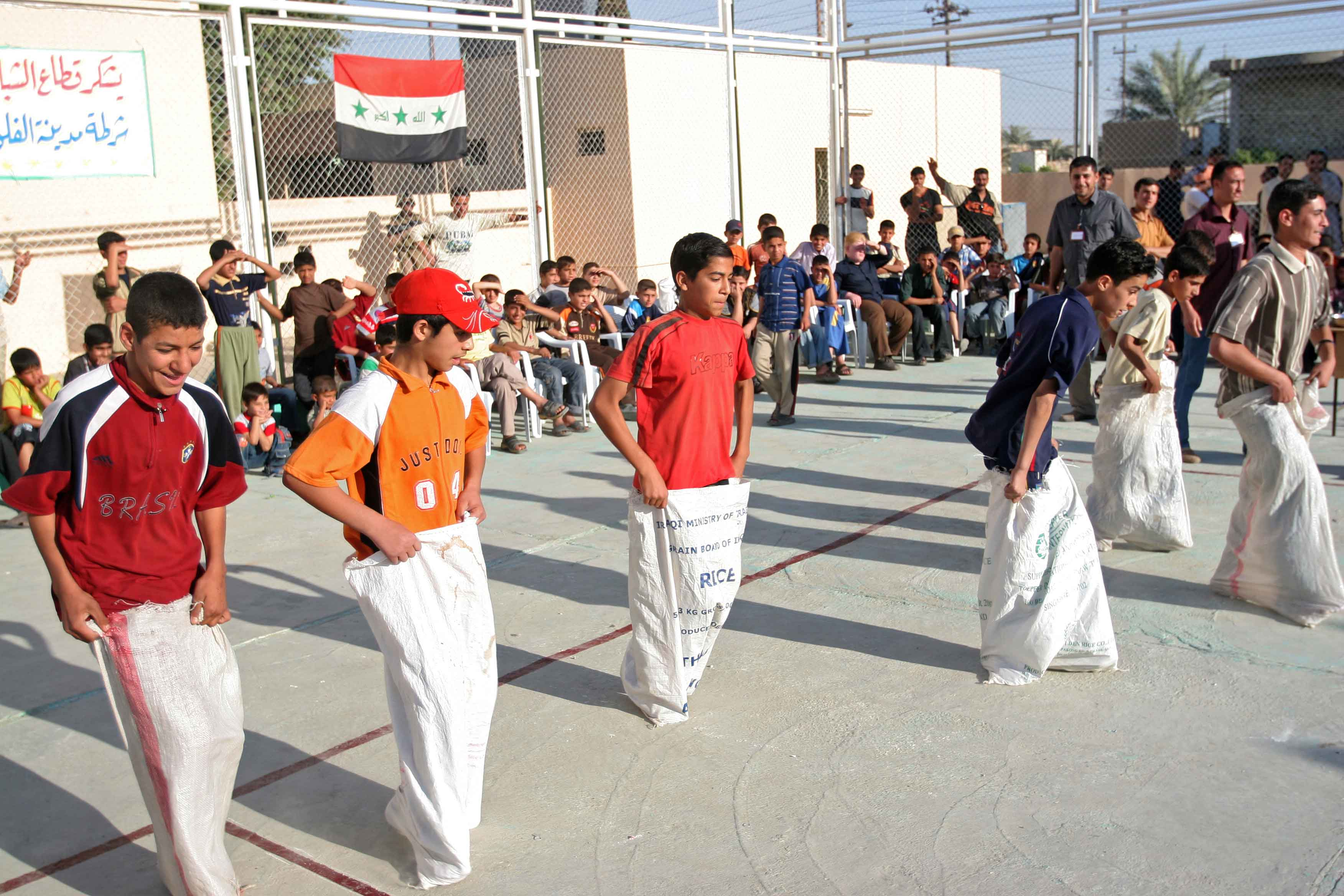 A group of children rush to the finish line in a rice sack race during the Fallujah Sports Day in Fallujah, Iraq.